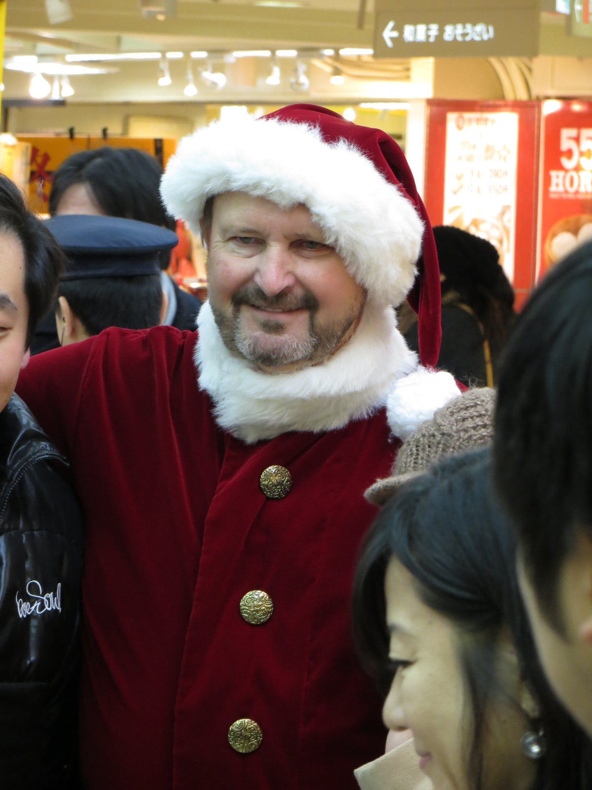 American politician and former baseball player Randy Bass dressed as Santa Claus at a promotional wine event at the Hanshin Department Store in Umeda, Osaka